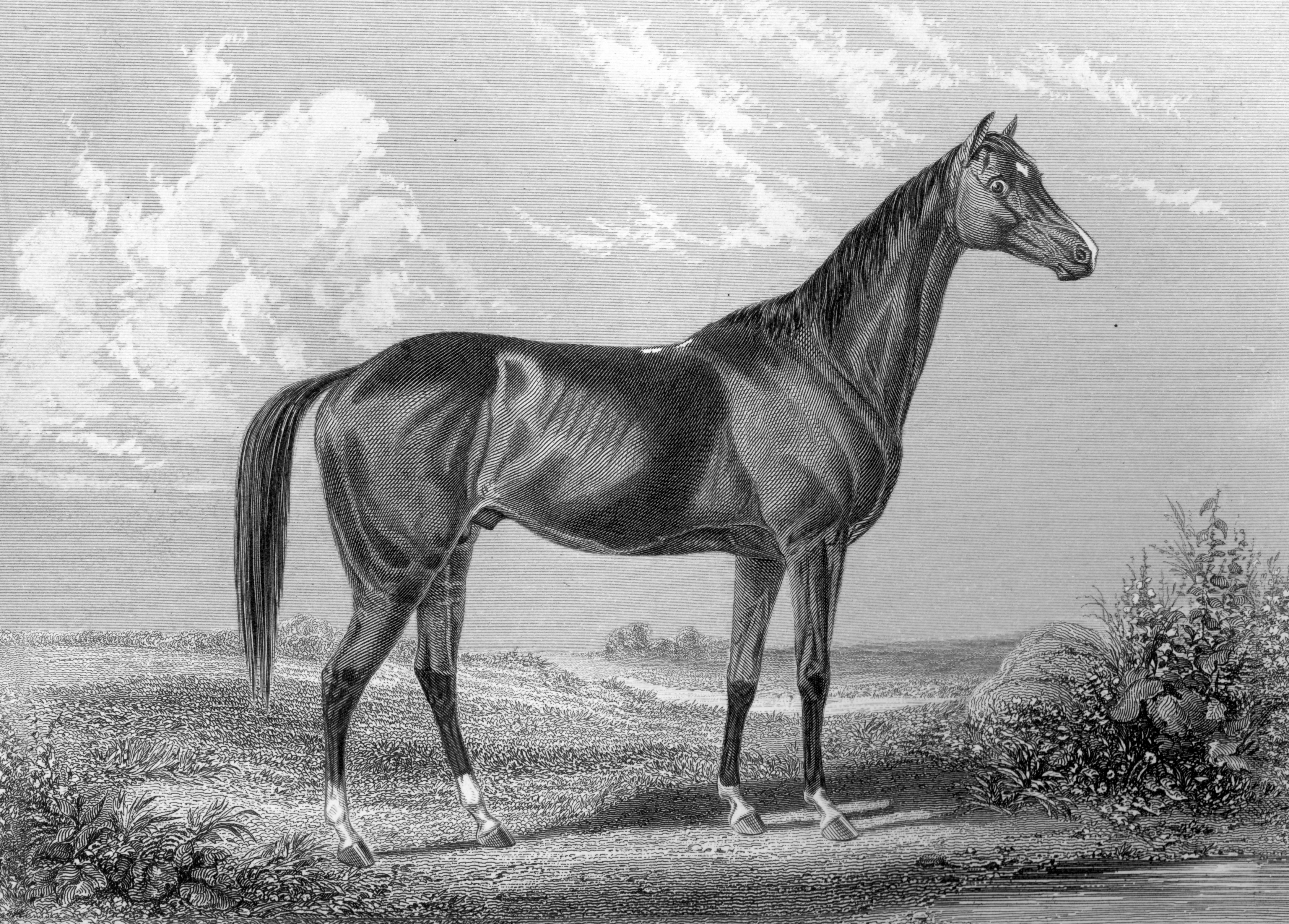 Lexington, an American Thoroughbred stallion